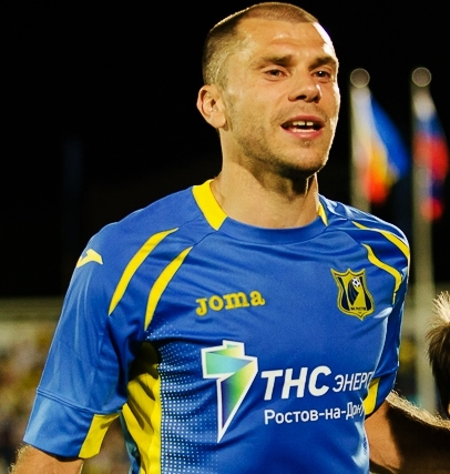 Timofei Kalachev